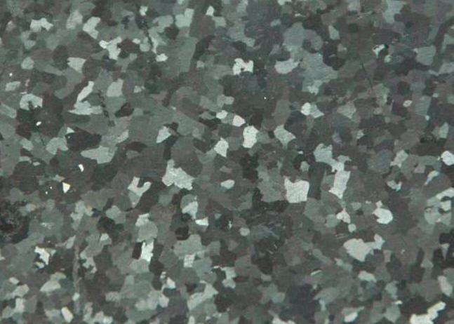 Willamette Meteorite - a recrystallized octahedrite, a type IIIAB iron meteorite, found at Willamette, Oregon, USA in 1902 (FMNH Me 592, Field Museum of Natural History, Chicago, Illinois, USA). A significant heating event caused recrystallization of this rock - so Widmanstätten structure is not easily seen in samples.